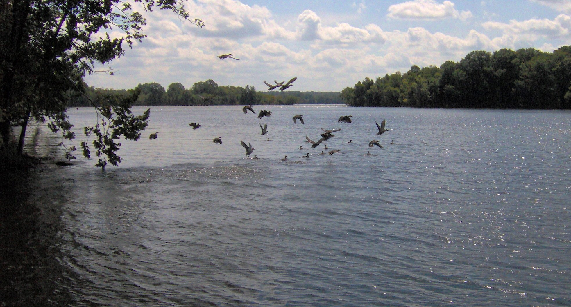 The Bledsoe Creek embayment of Old Hickory Lake, viewed from a dock at Bledsoe Creek State Park in Sumner County, Tennessee, in the southeastern United States.